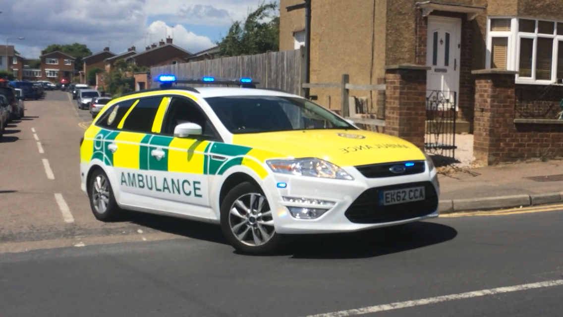 East of England Ambulance Ford Mondeo RRV